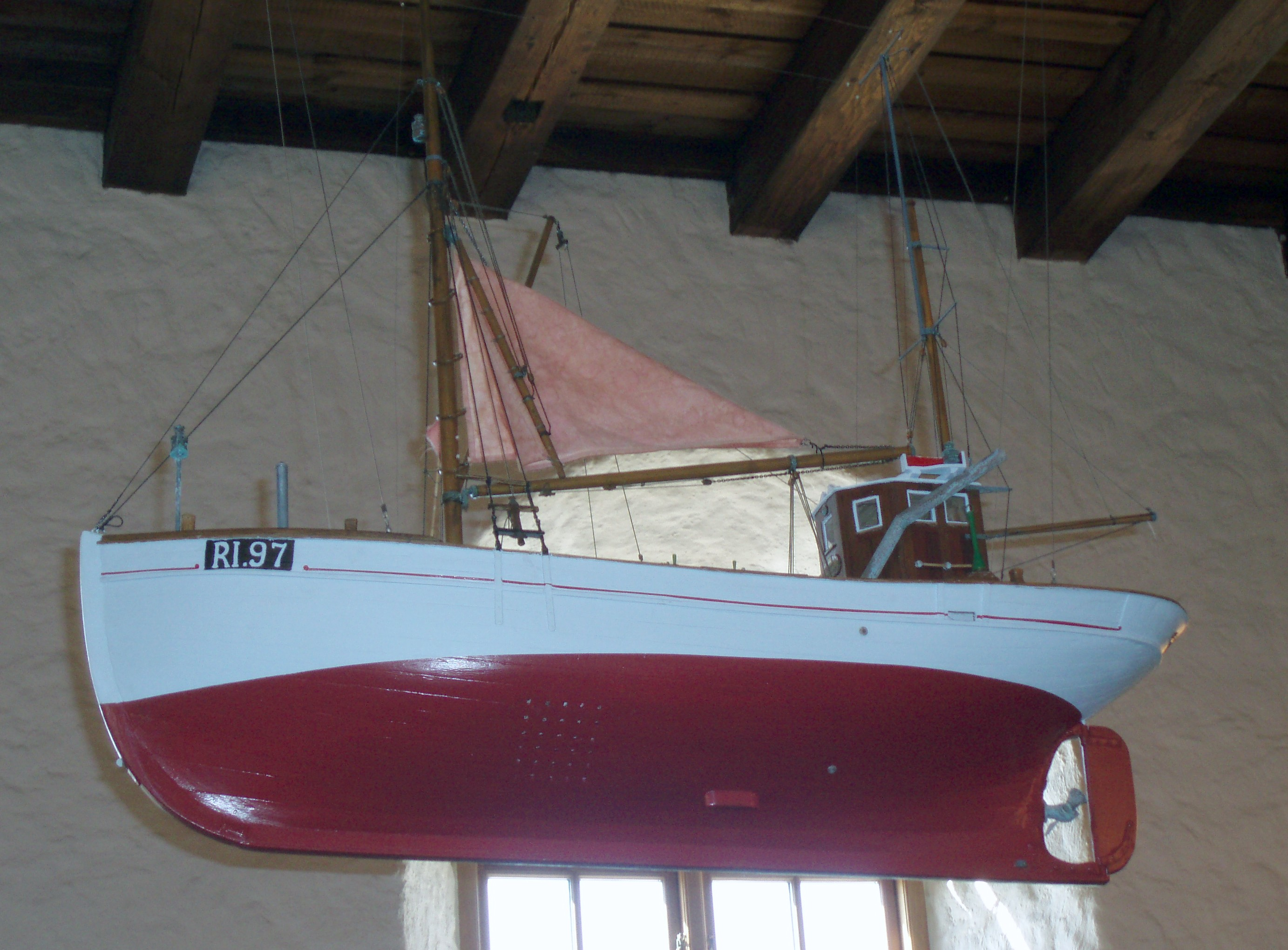 Helligåndskirken (Ringkøbing-Skjern Kommune) in Denmark. Ship model.